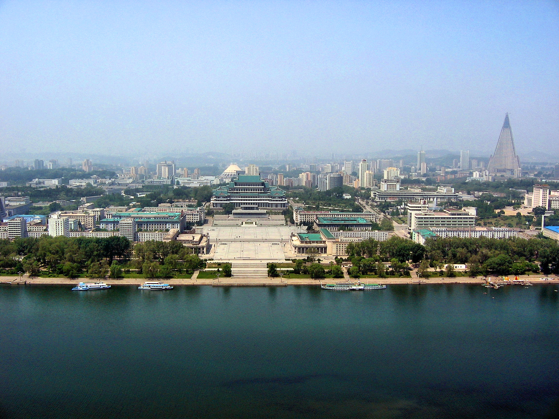 Panorama of Pyongyang, North Korea.